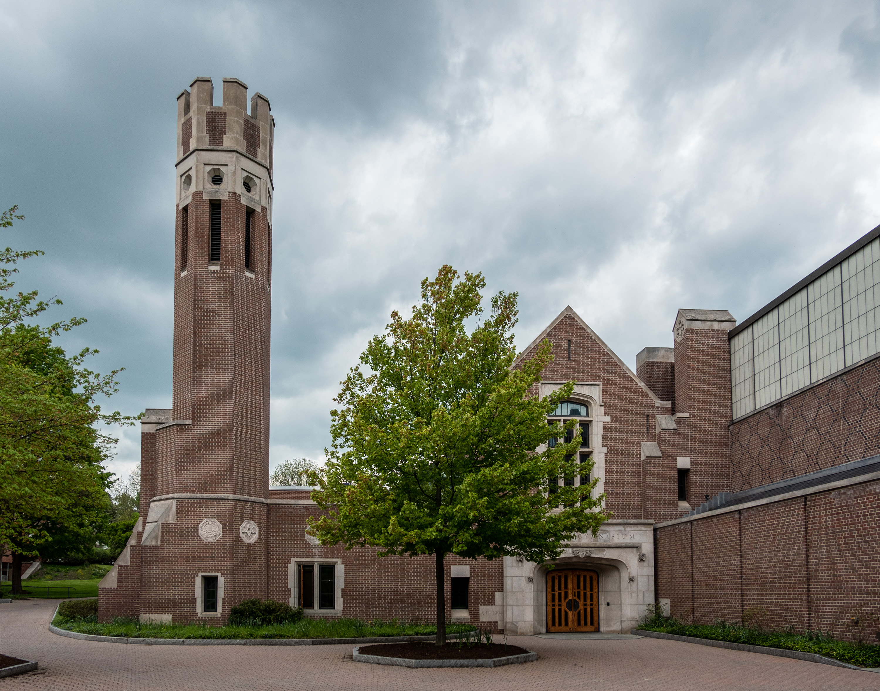 Speidel Gymnasium in Emerson Hall, Elmira College, Elmira New York